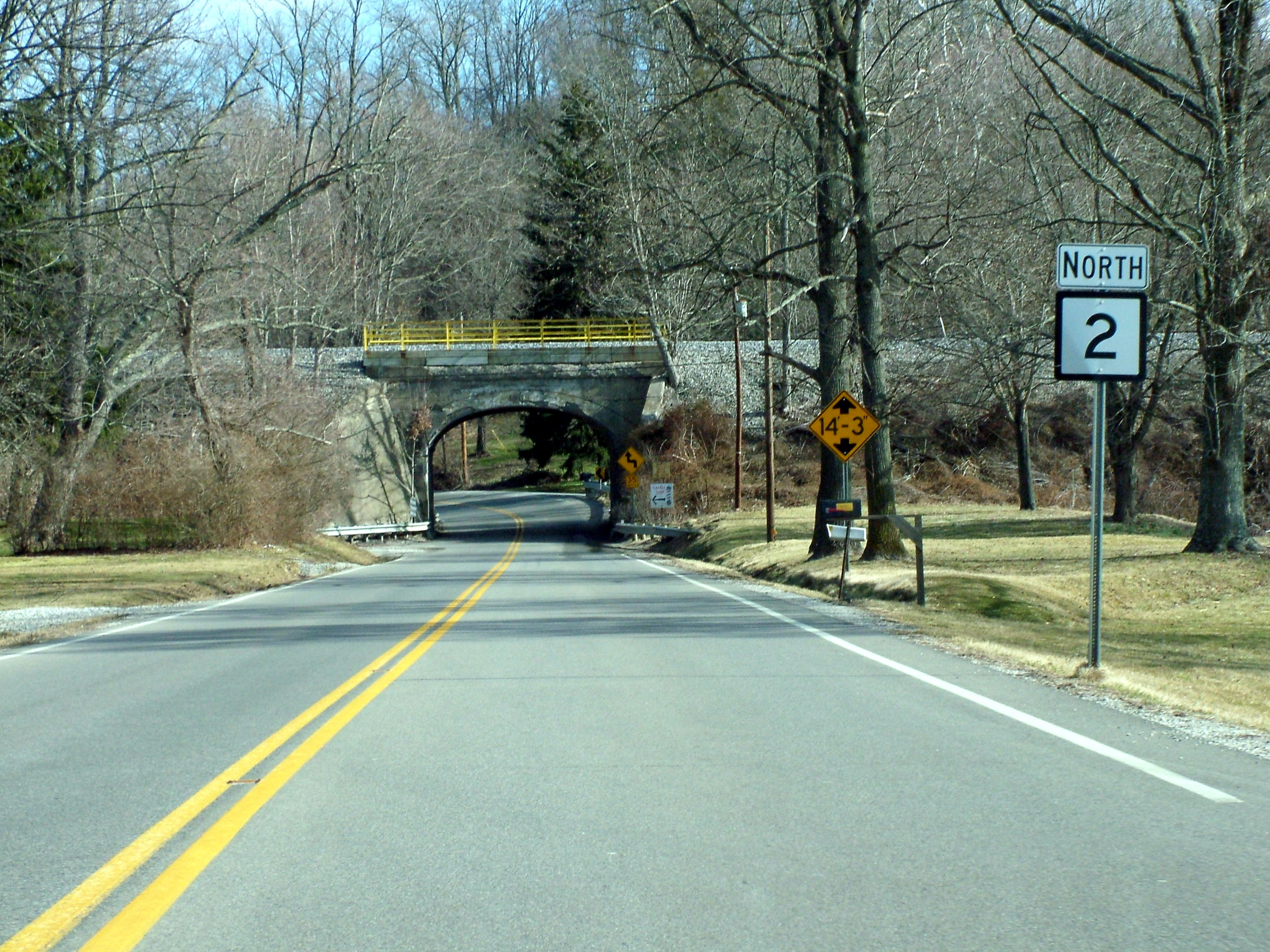 A stone rail bridge, built in 1909, crosses West Virginia State Route 2 near Point Pleasant, WV